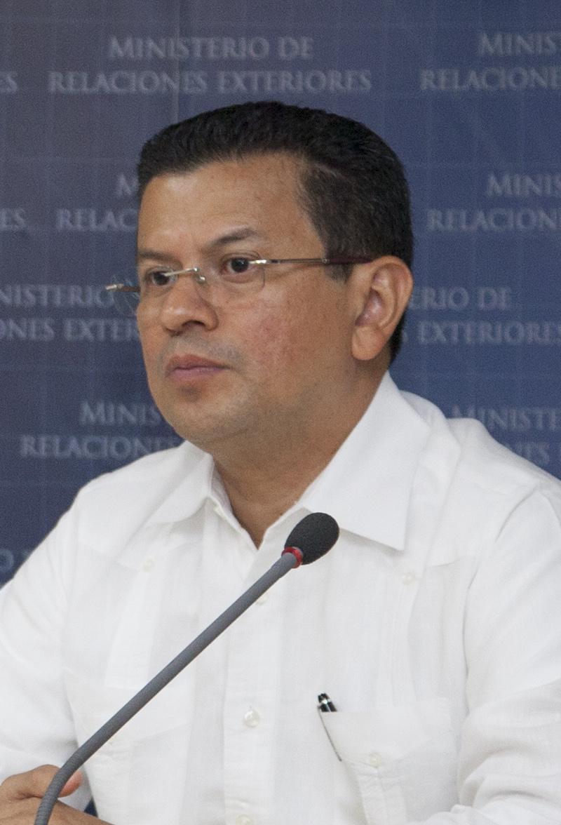 San Salvador (El Salvador), 12 de Agosto del 2014. Rueda de prensa brindada por Canciller Ricardo Patiño de Ecuador y el Canciller Hugo Martínez de El Salvador. Foto: Nina Zambrano Díaz. Cancillería del Ecuador.